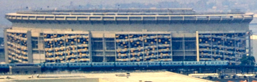 Shea Stadium during the 1964 World's Fair.